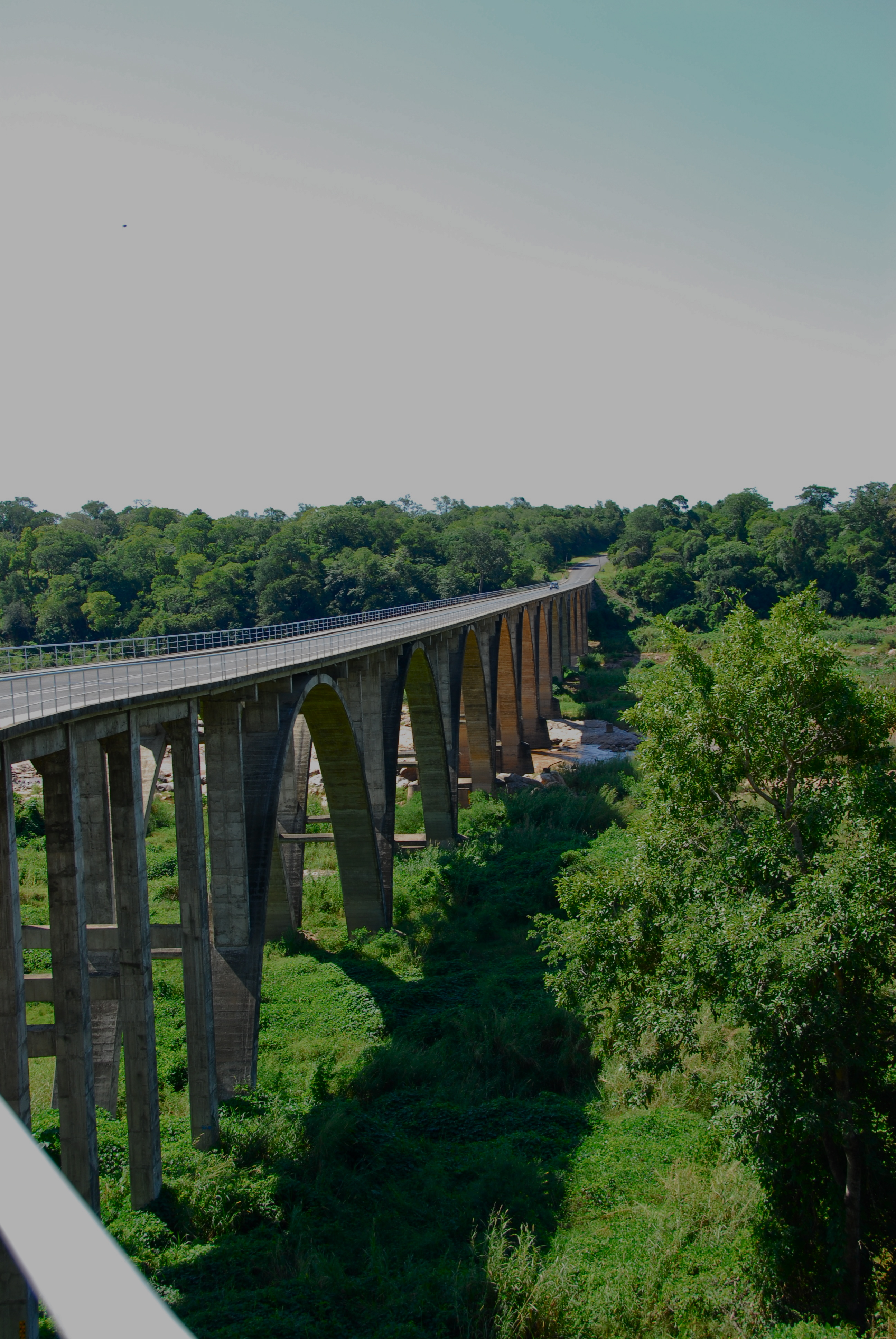 Gorongosa bridge, Mozambique